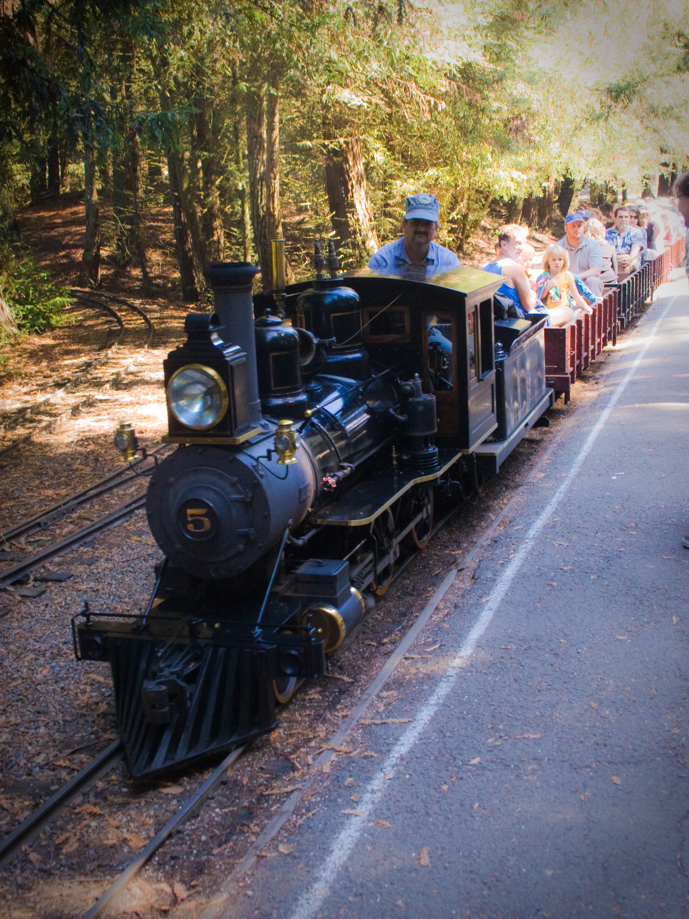 Number 5 Prepared to Depart